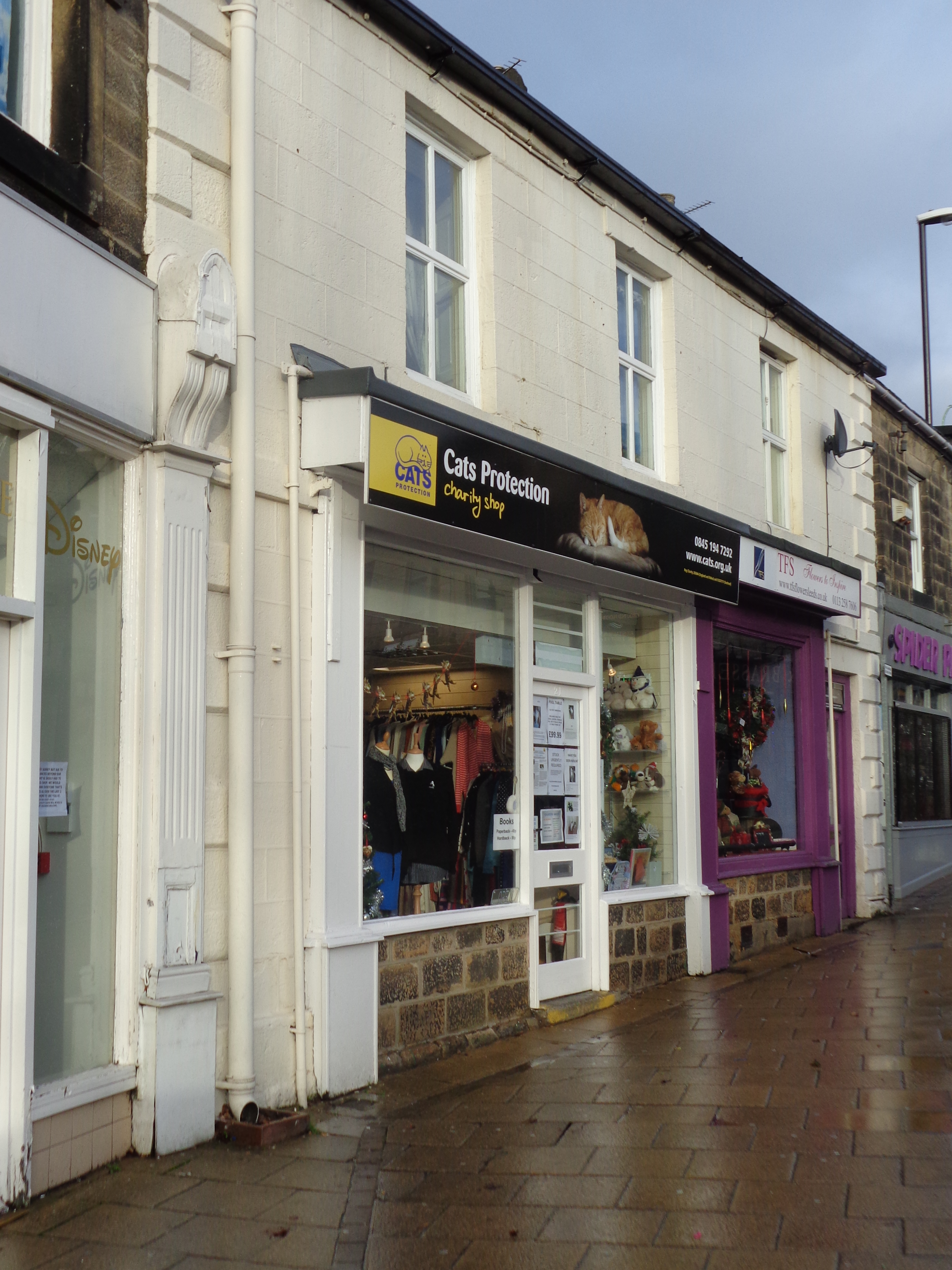 Cats Protection charity shop, Town Street, Horsforth, Leeds, West Yorkshire. Taken on the afternoon of Monday the 30th of December 2013.